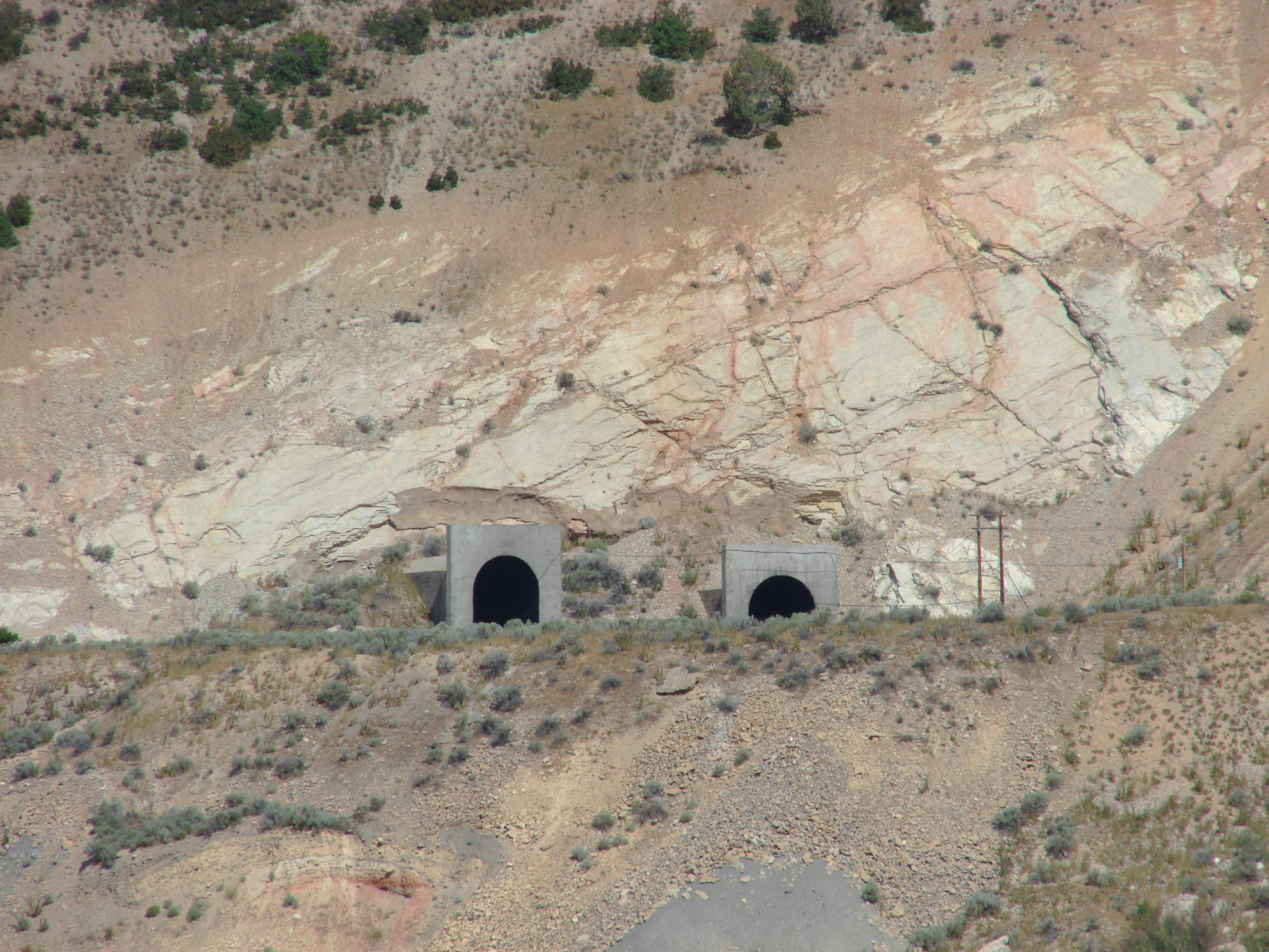 The east end of the rail tunnels through Billies Mountain in Thistle, Utah, as viewed from US-89, July 2015